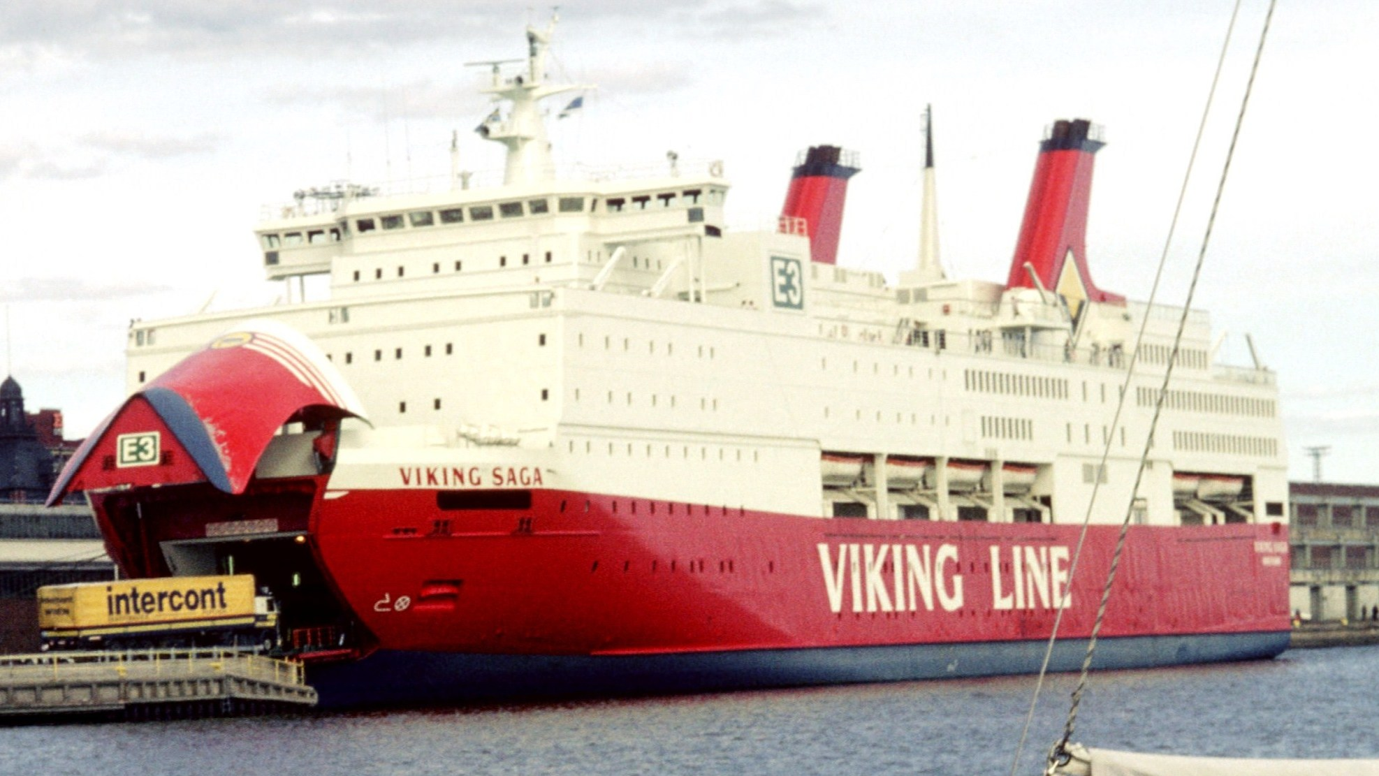 The ferry Viking Saga in the port of Helsinki, Finland. The vessel was constructed in 1980 for the Finnish company Rederi Ab Sally. IMO 7827213. The white ship in the background is most likely the Soviet liner Baltika built in 1940, scrapped in 1987.